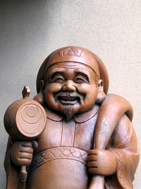 Daidoku: God of Wealth